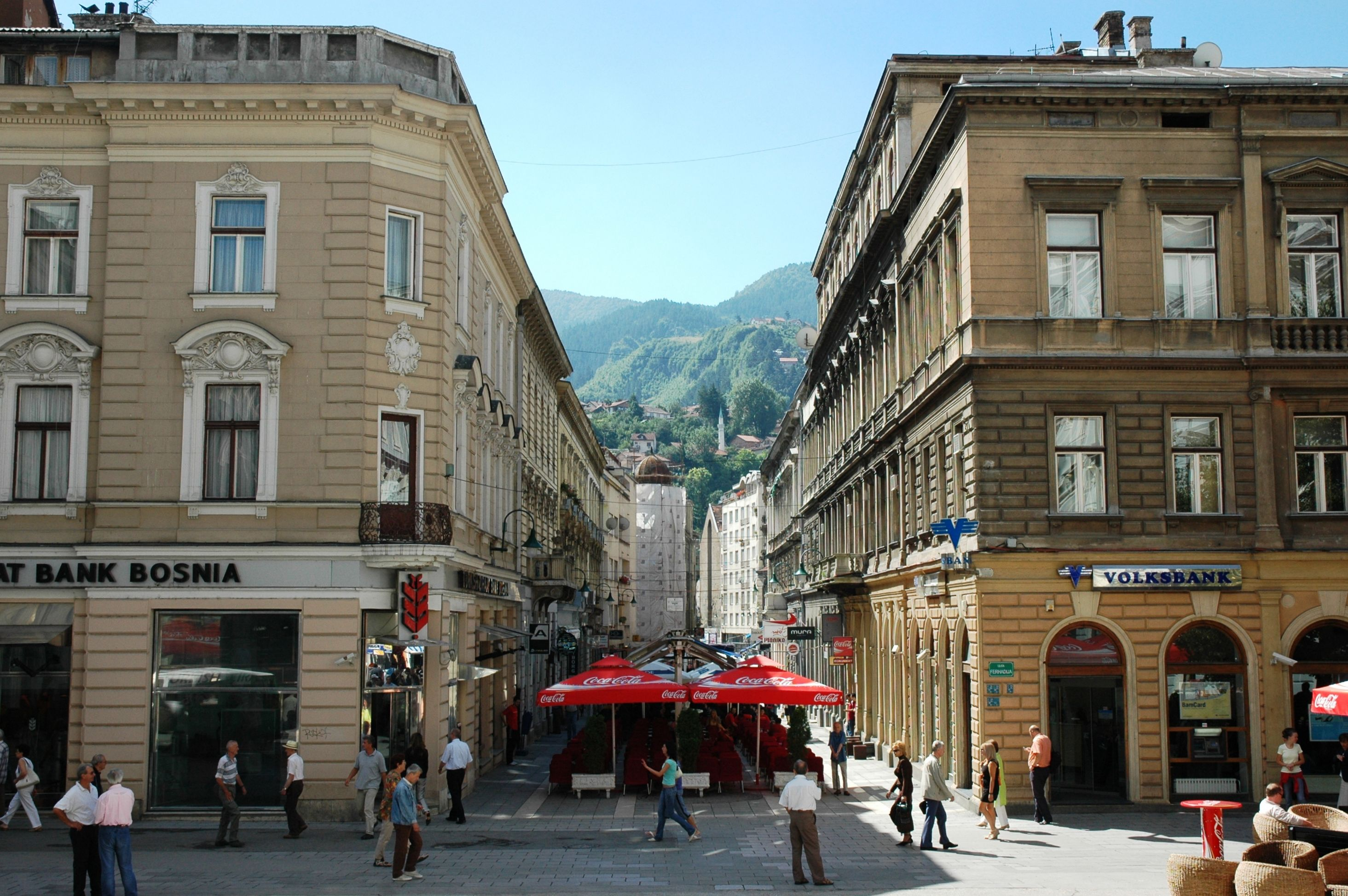 Ferhadija street in central part of Sarajevo, capital of Bosnia and Herzegovina